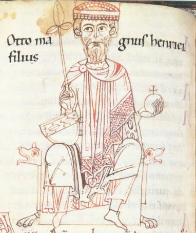 Otto I, Holy Roman Emperor